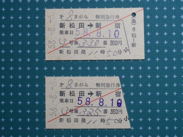 Limited express ticket of Odakyu Romancecar Sagami.